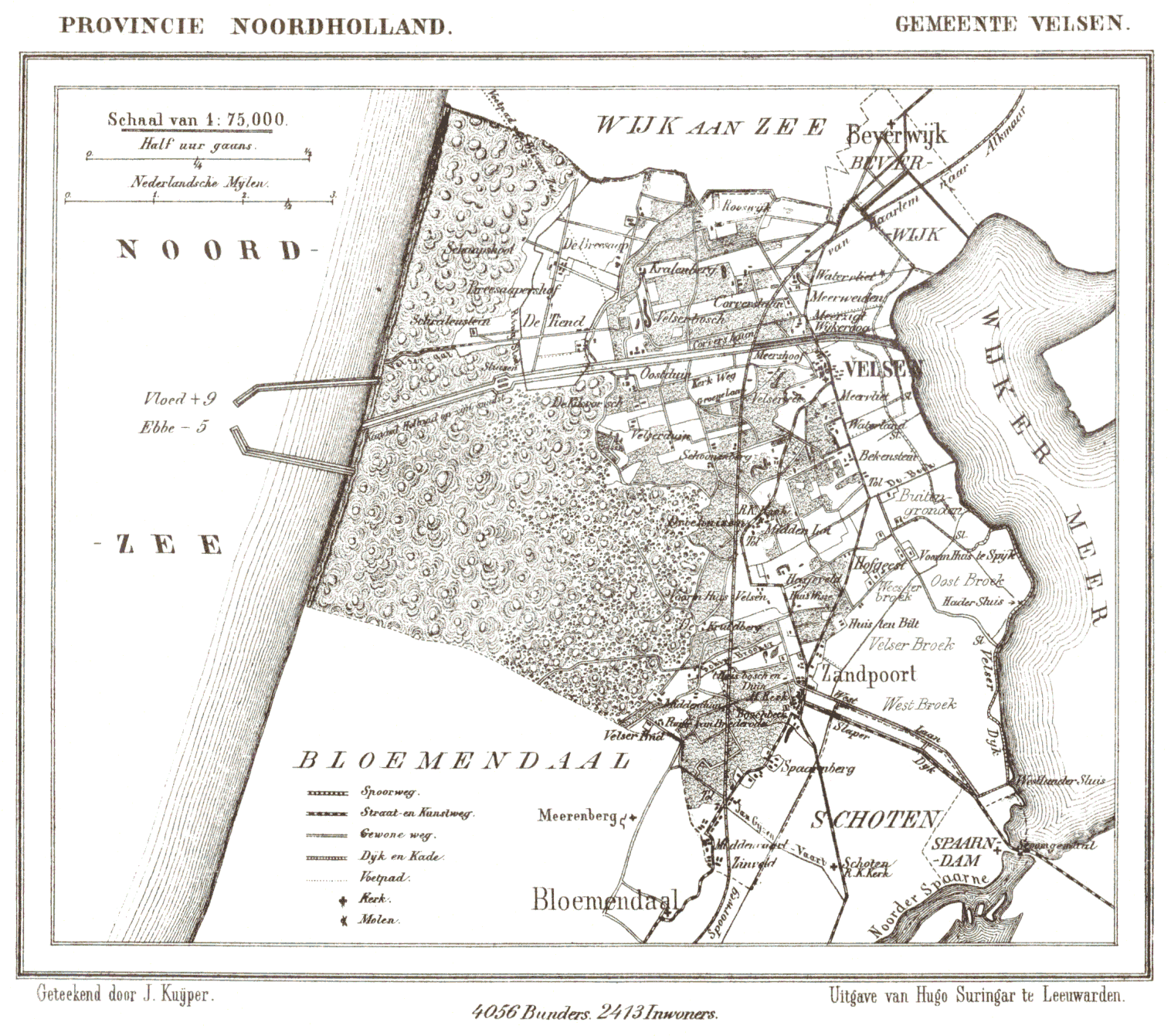 Historic map of municipality Velsen, North Holland, the Netherlands, in 1867. The North Sea Canal is shown as planned and partially under construction. Historic map of Velsen showing the western portion of the IJ and the planned route of the canal.